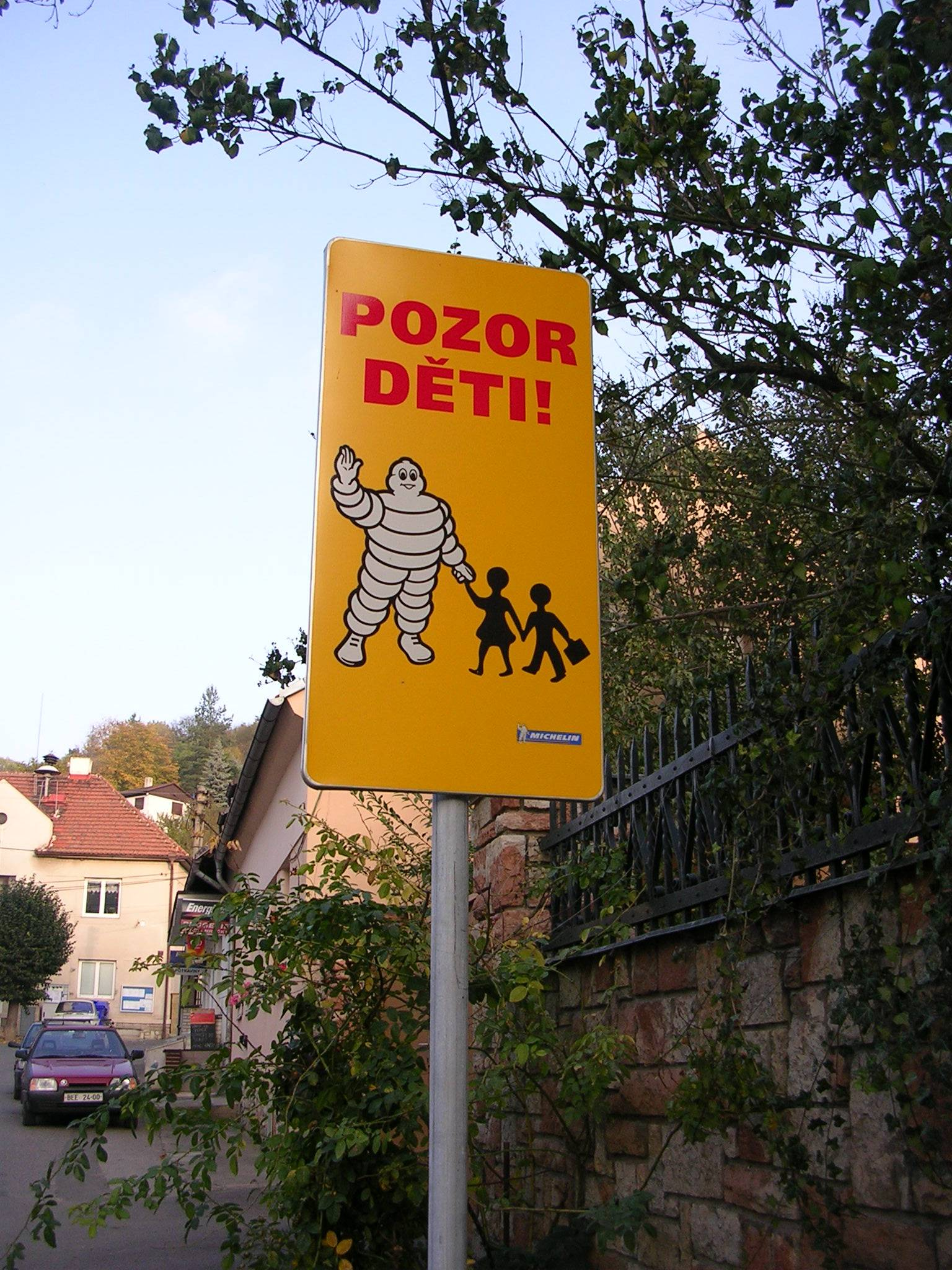 Srbsko, Central Bohemian Region, the Czech Republic.